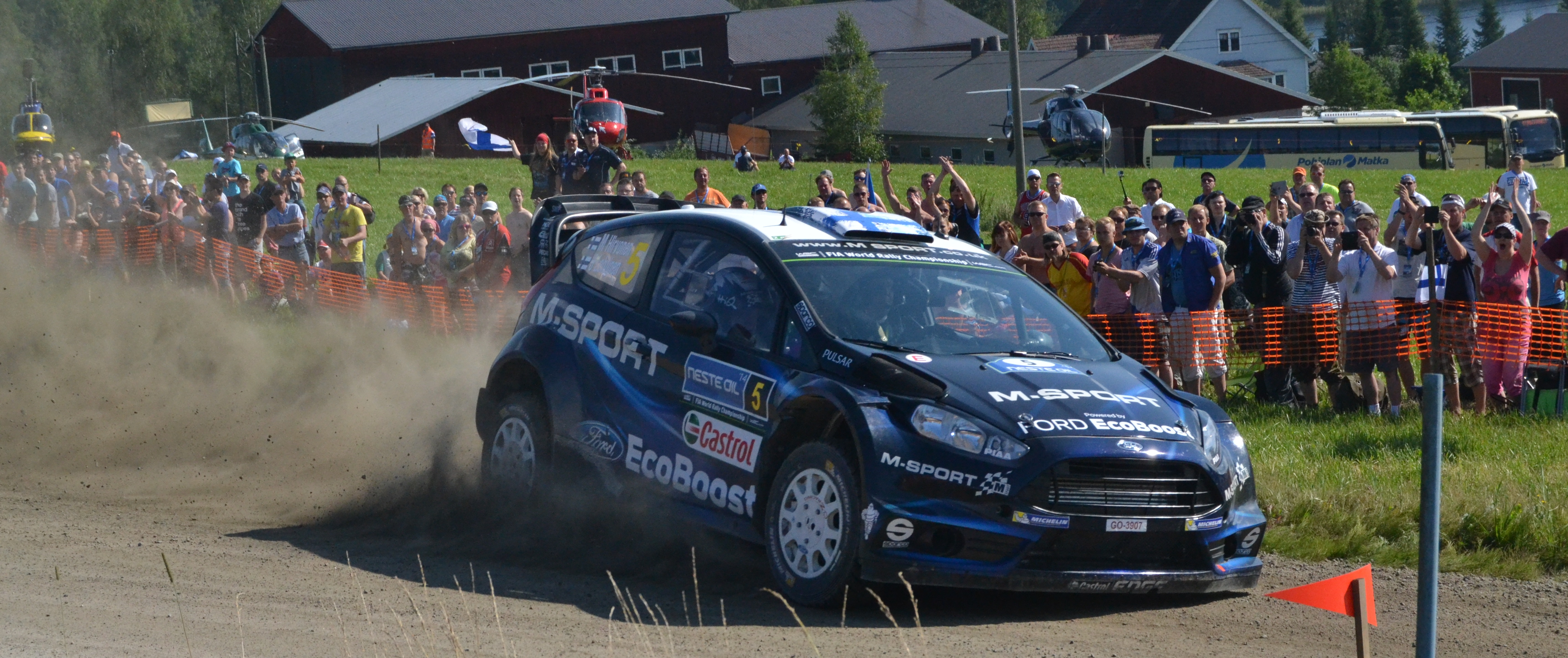 Mikko Hirvonen at 1st Surkee stage at Rally Finland 2014